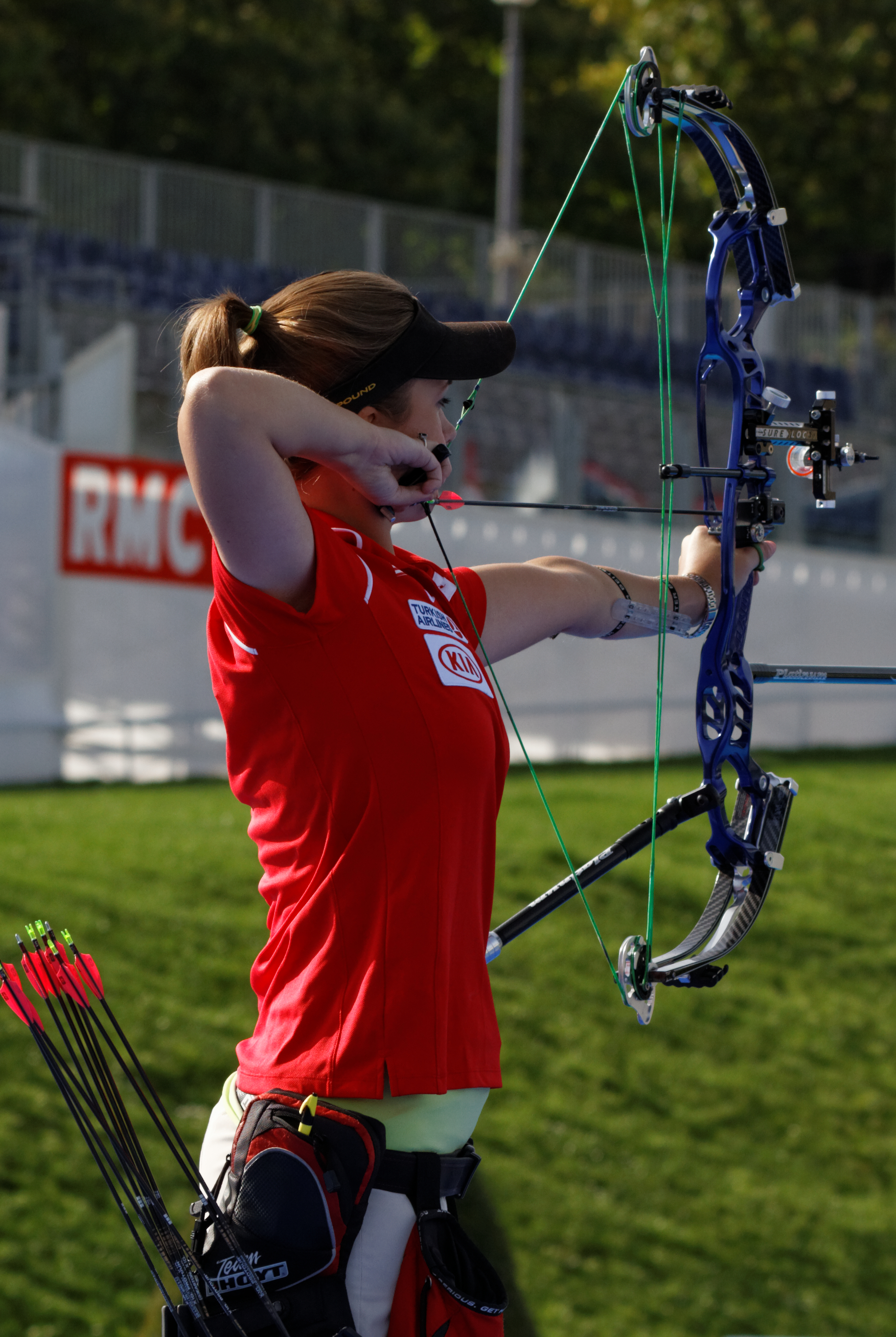 2013 FITA Archery World Cup, Paris, France. Women's individual compound final: Alejandra Usquiano vs Erika Jones.